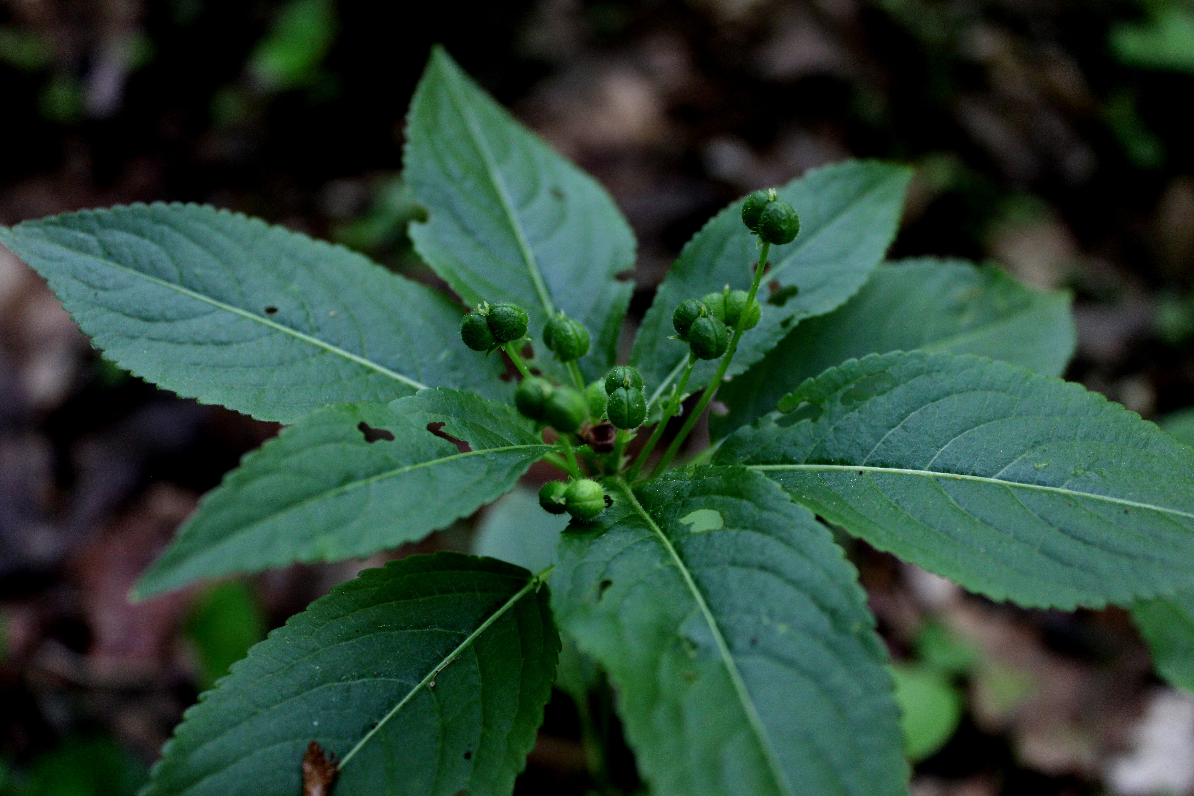 Mercurialis perennis - fruits (capsules)